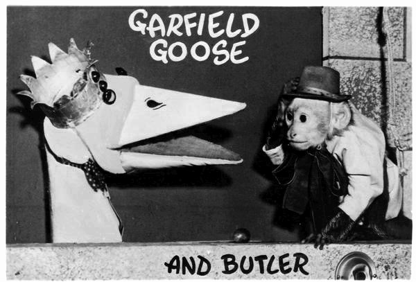 Promotional photo card of Garfield Goose and Geronimo, the butler.